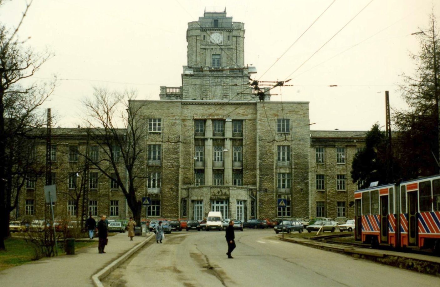 Building of Estonian Maritime Academy, (formerly the Faculty of Economics of TTÜ) in Kopli, Tallinn, Estonia